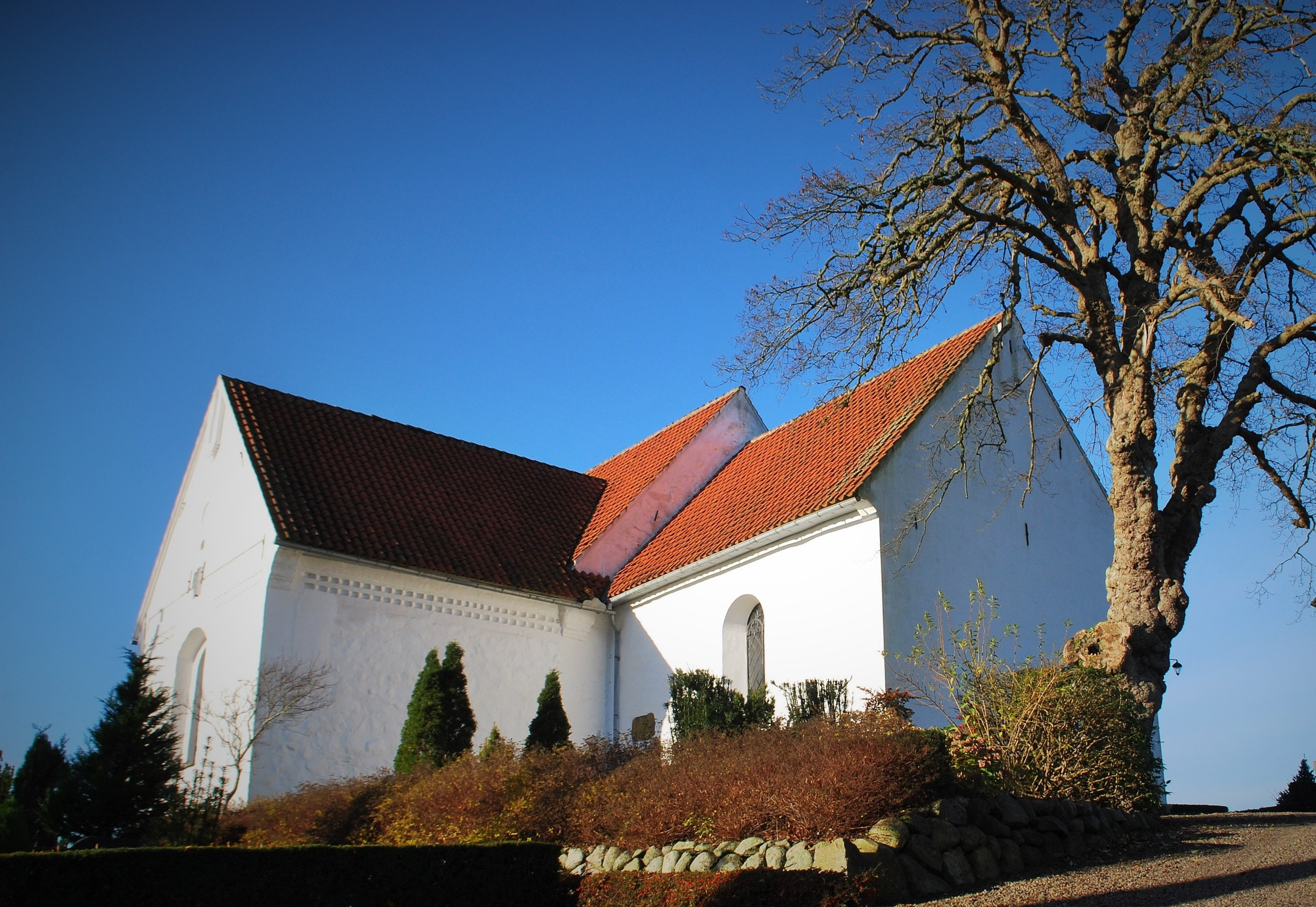 Churchs of Varnæs, Sundeved, Denmark